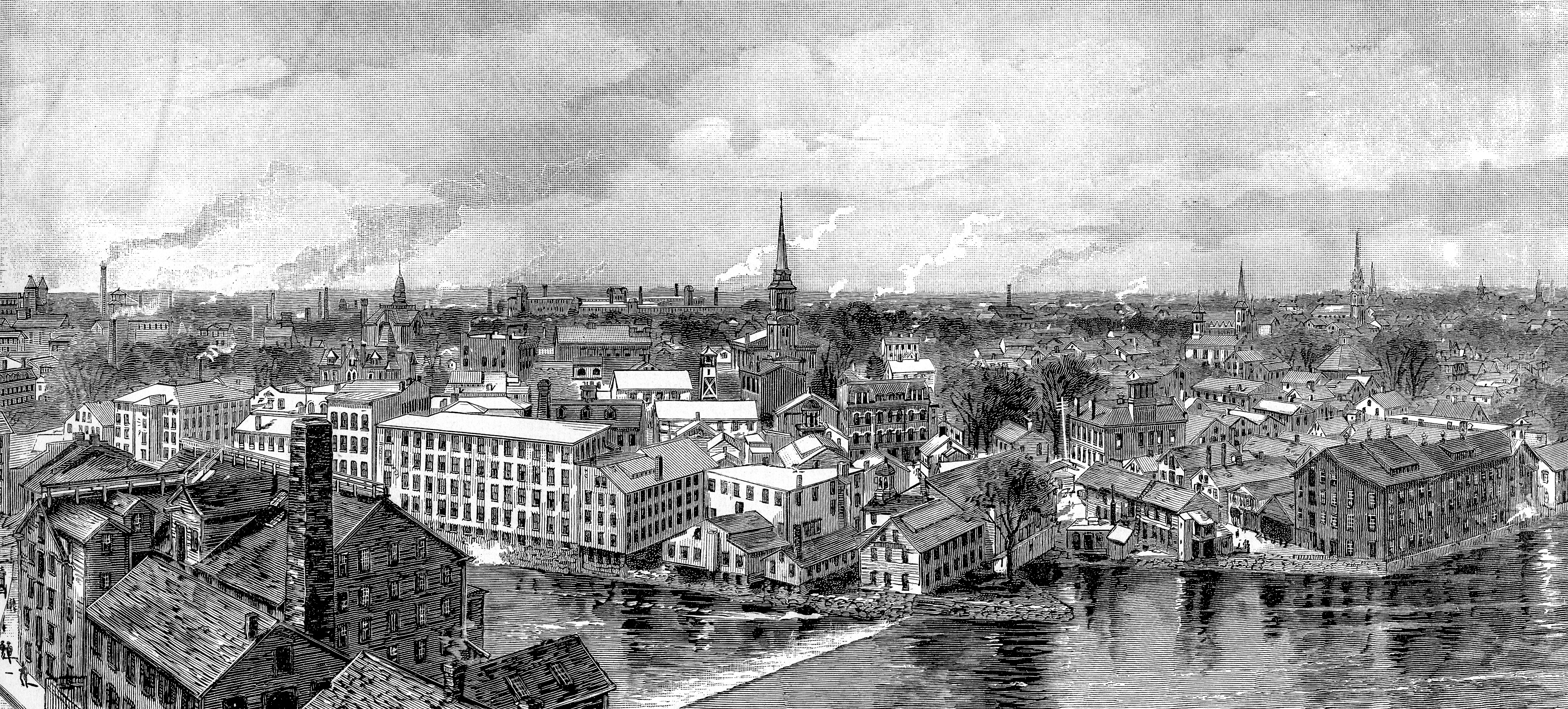 City of Pawtucket, Rhode Island viewed from the steeple of the Pawtucket Congregational Church. 1886 engraving.